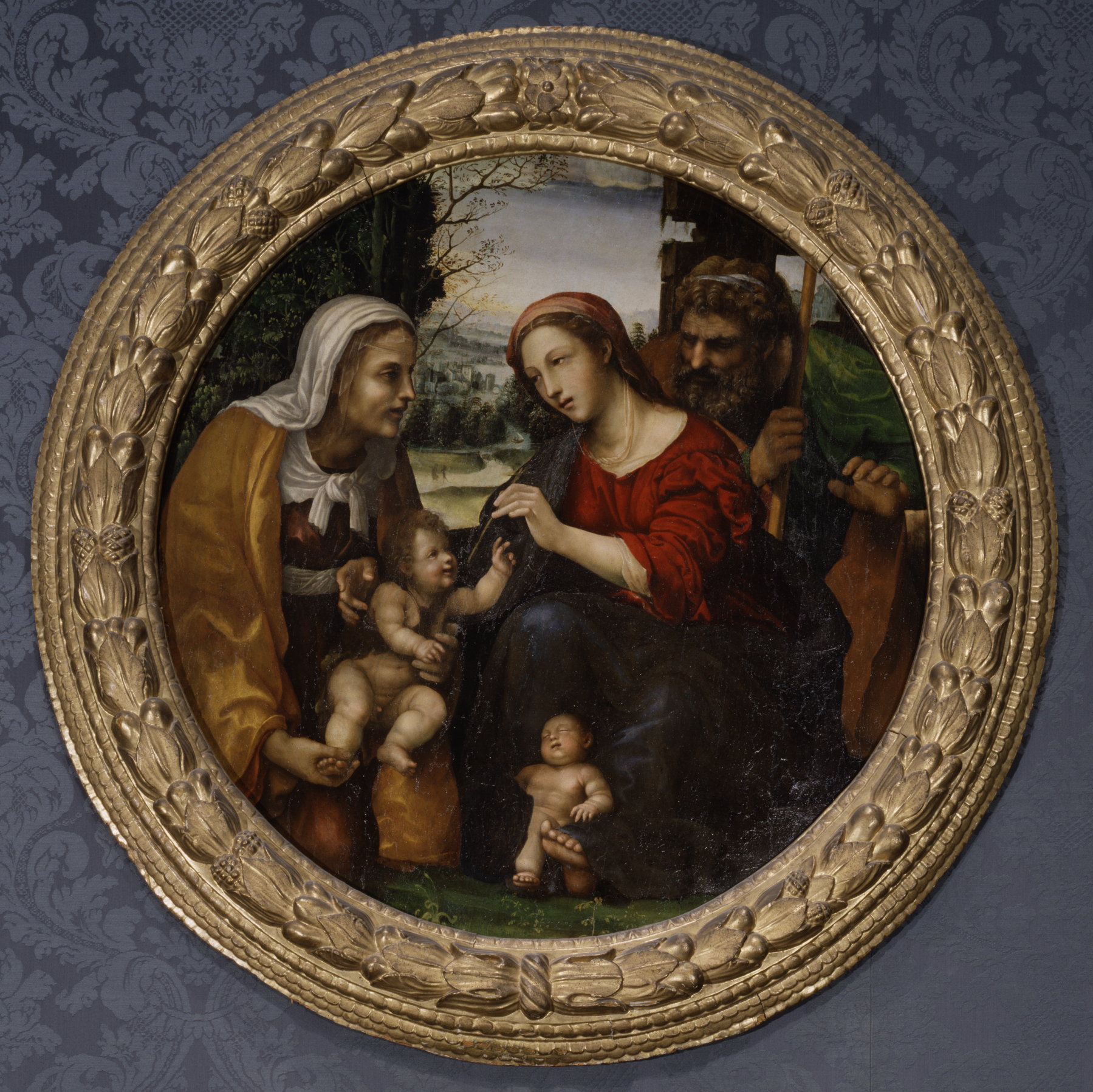 The little John the Baptist and the Christ Child are represented in ways that encourage the viewer to ponder their futures. Held by his mother Elizabeth, Mary's cousin, John acts out his adult role as Christ's precursor and hands Mary a small branch shaped as a cross. At Mary's feet, the tiny Christ Child is shown deeply asleep in a position that foreshadows his later death. Bazzi, called Sodoma, was fond of creating focused views of figures that give monumentality and forcefulness to the scene. This type of "tondo," or circular painting, would not have served as an altarpiece but would most likely have hung in a domestic setting.